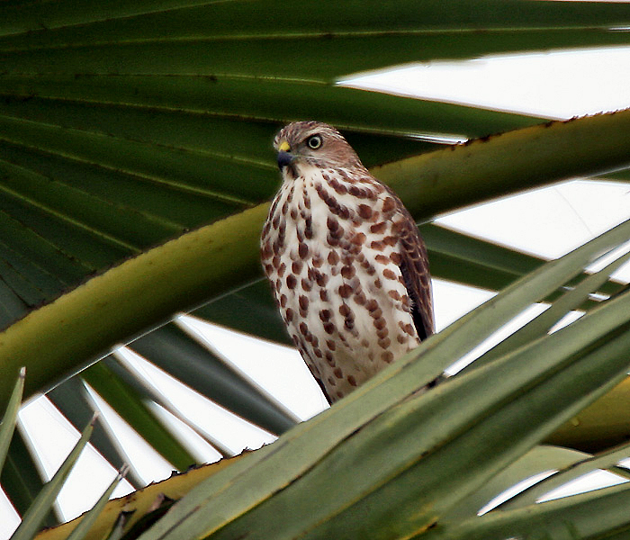 Shikra Accipiter badius in Kolkata, West Bengal, India.